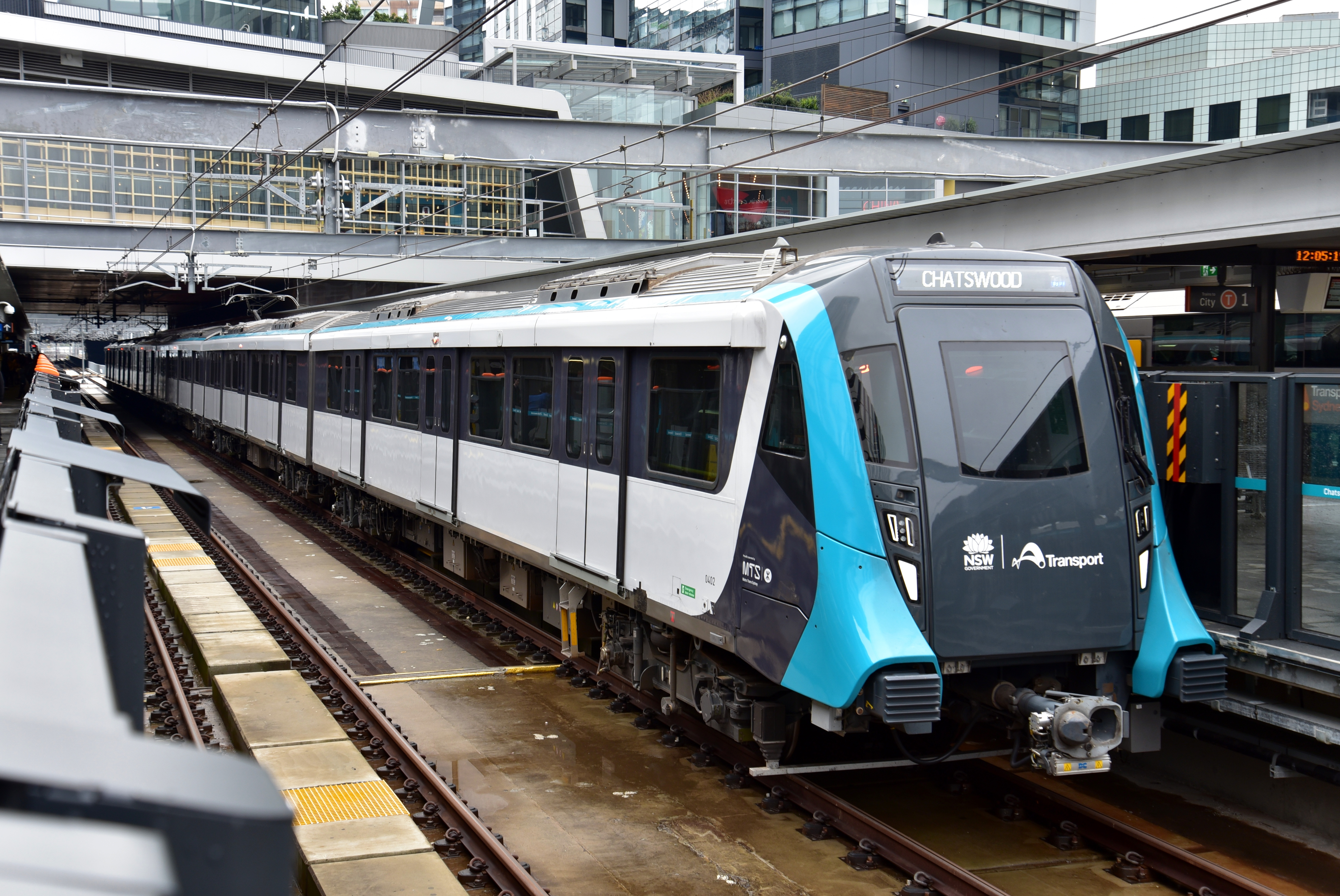 Sydney Metro Alstom Metropolis unit no. 0402 following its arrival at Chatswood railway station after operating a Metro North West Line service from Tallawong